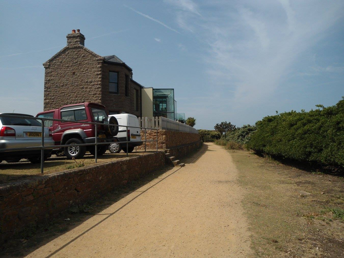 The rear of Corbiere railway station, Jersey